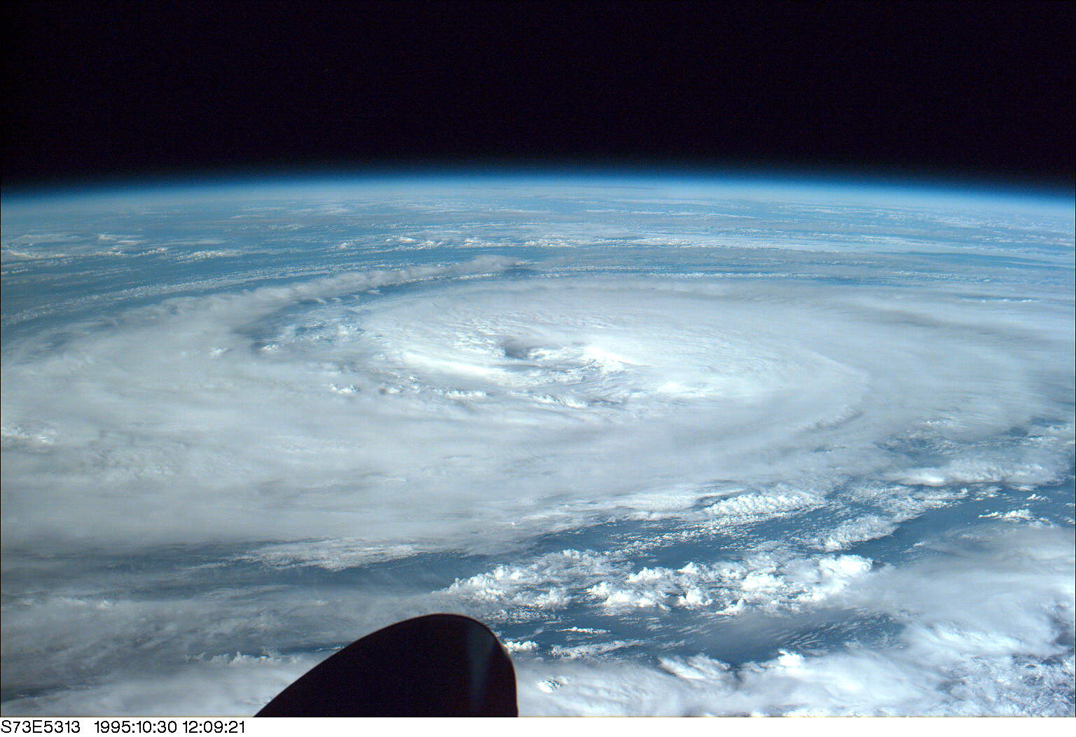 STS073-E-5313 (3 November 1995) --- Typhoon Angela packed winds of 115 knots when this shot was taken with an Electronic Still Camera (ESC) from the Earth-orbiting Space Shuttle Columbia. It subsequently increased to speeds of 155 nautical miles, making it a super typhoon, heading due west toward Luzon in the Philippines.